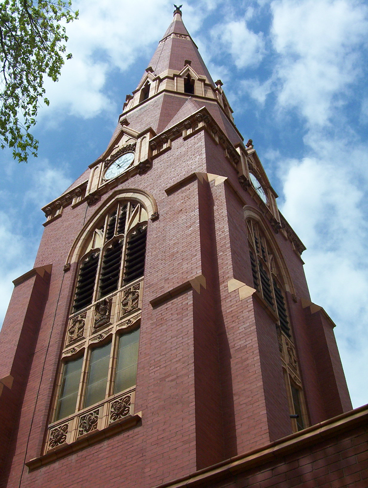 February 19th, 2004 :: The steeple of St. John the Evangelist Cathedral. This church is one of the most photographed in Saskatoon. There is something that I love about the red brick against the blue sky of winter.